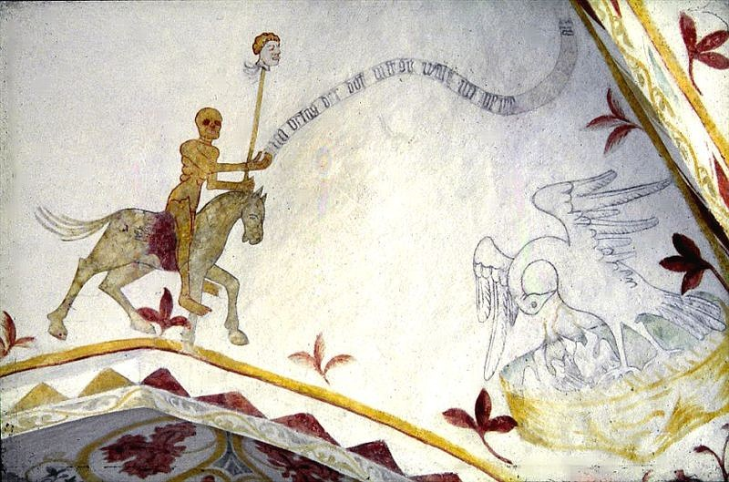 Bregninge Kirke (church) in Kalundborg Kommune